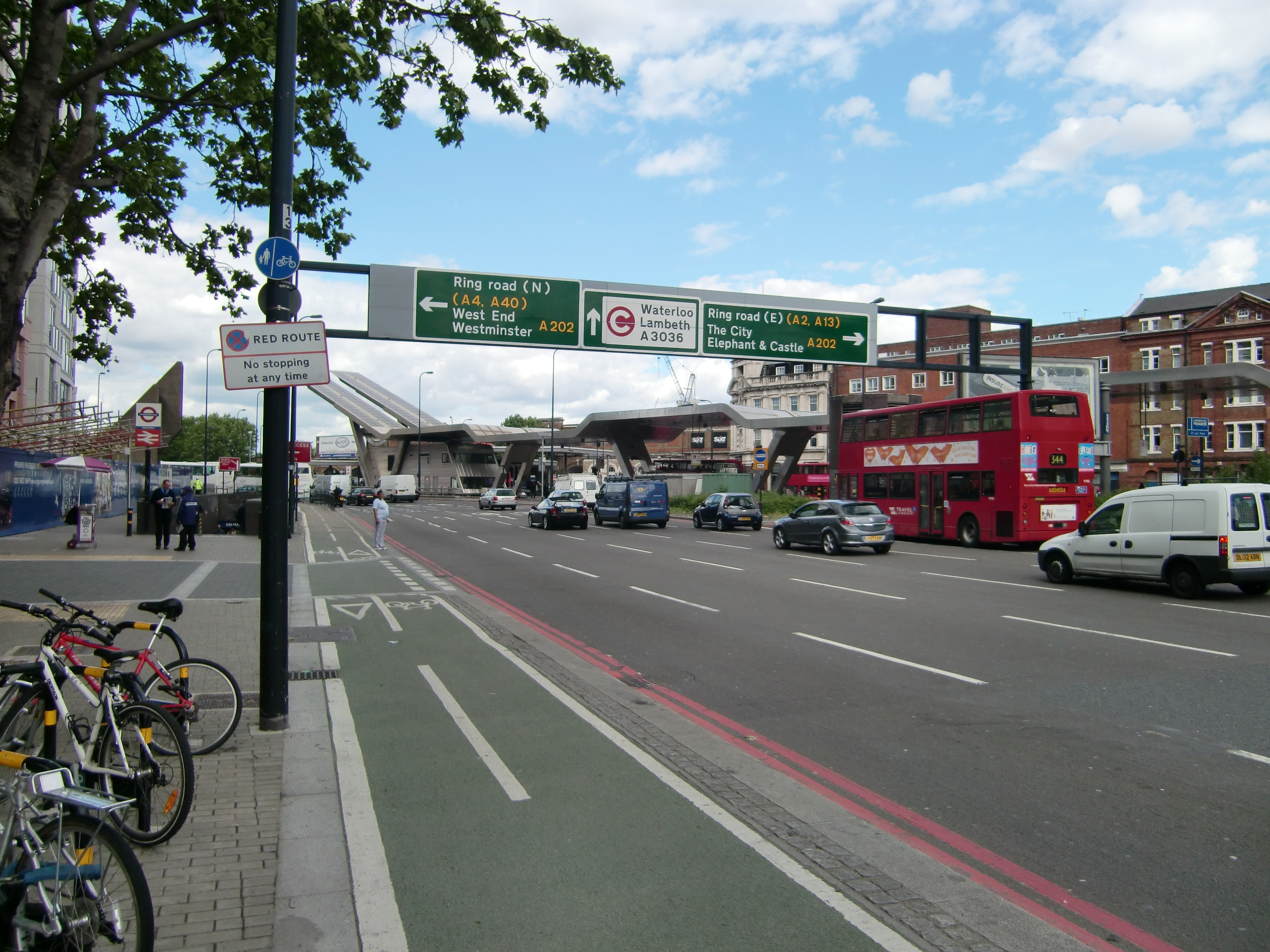 The approach to Vauxhall Cross showing signs for Vauxhall Bridge